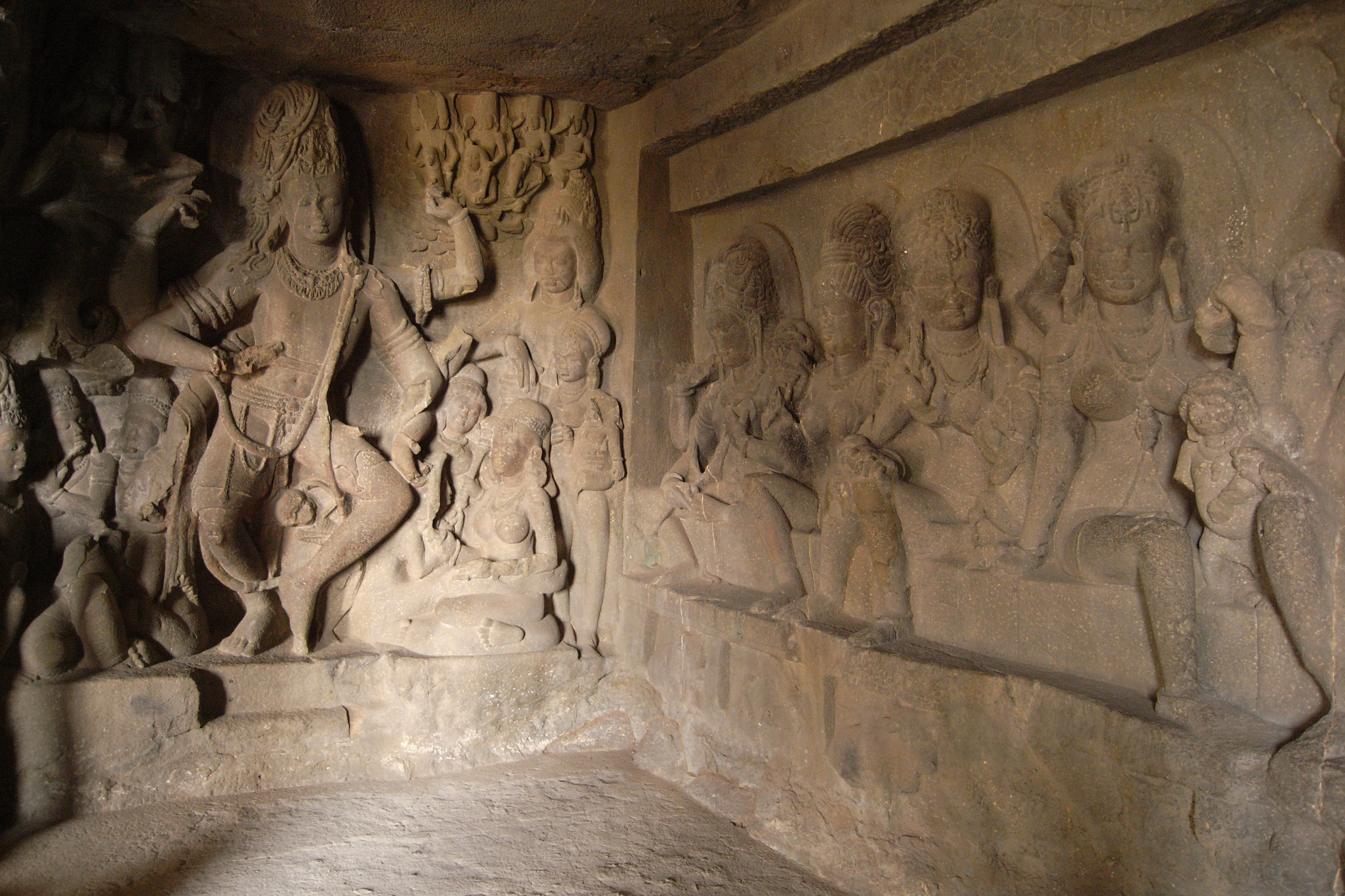 Shiva and Matrikas at ellora caves, Maharashtra, India